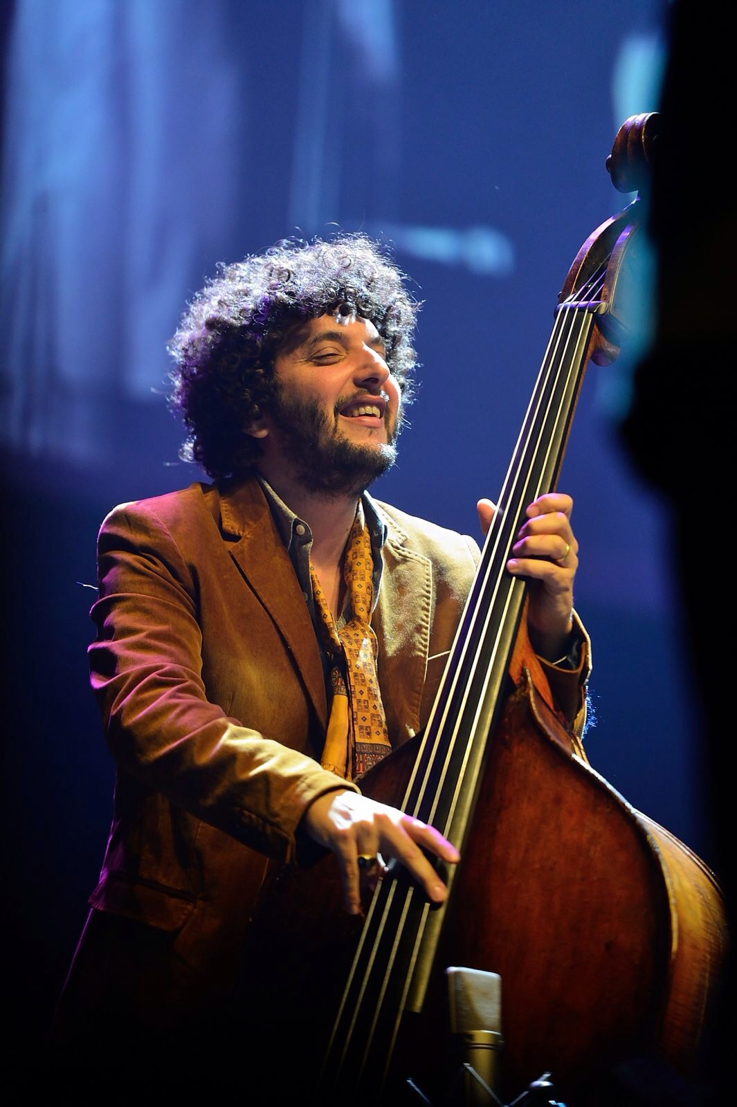 Omer Avital performing at Olympia in Paris, 2012.